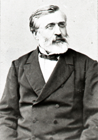 French republican deputy and mayor of Lyons Désiré Barodet